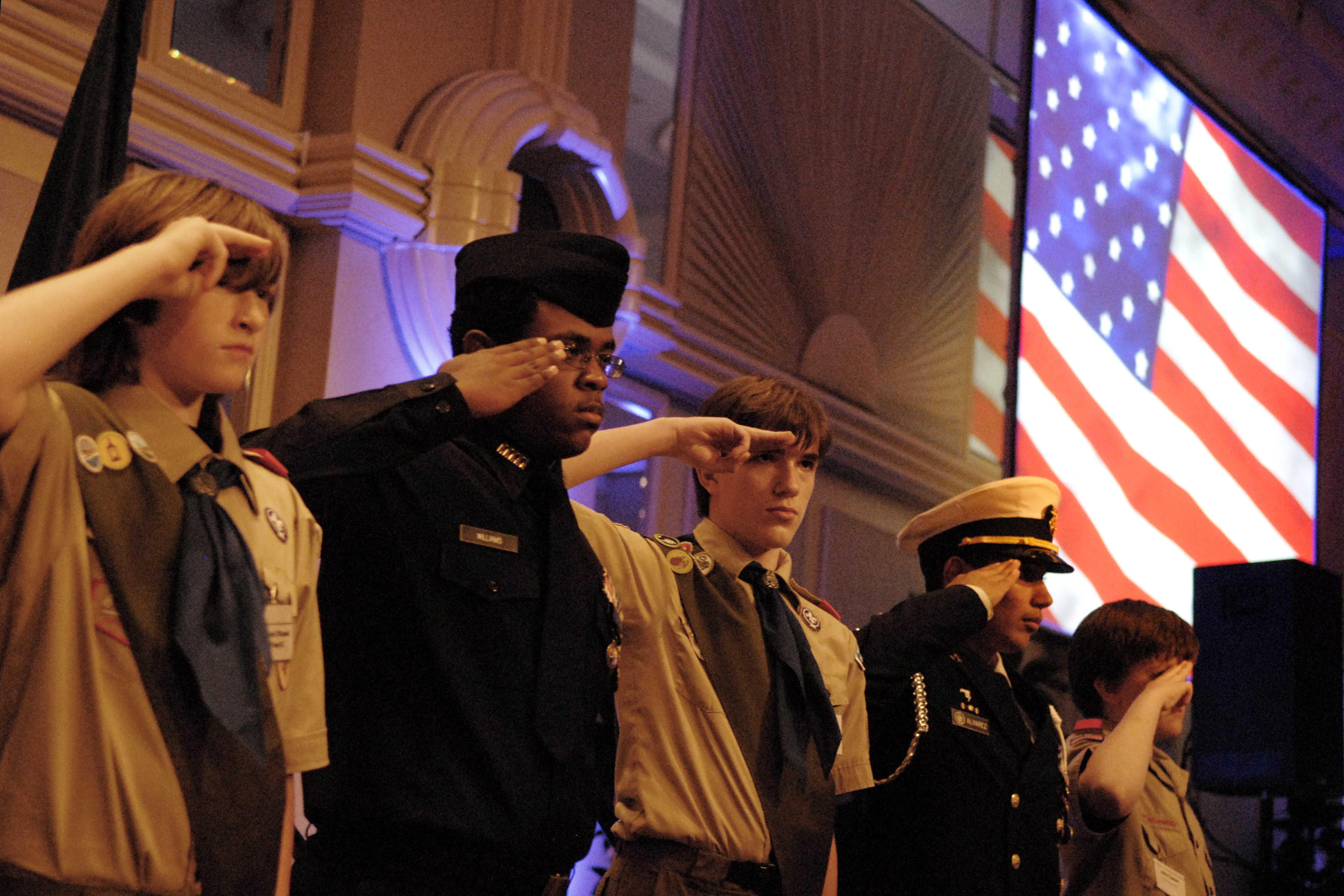 Members of the Boy Scouts of America salute during the playing of the national anthem as part of the Boy Scouts of America 39th Annual Citizen of the Year award reception and dinner in Washington, D.C., Nov. 15, 2007.